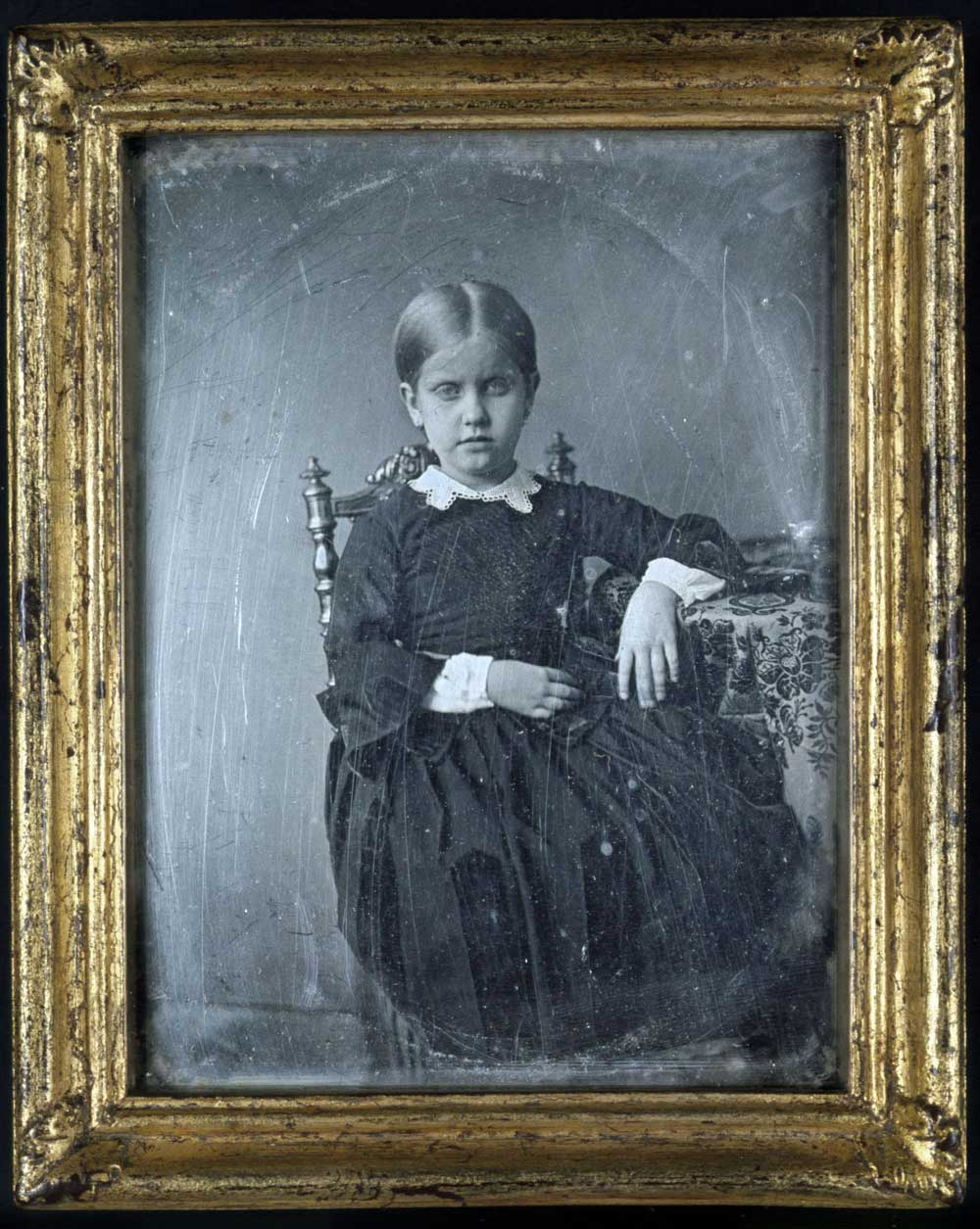 Princess Leopoldina, daughter of Emperor Pedro II of Brazil